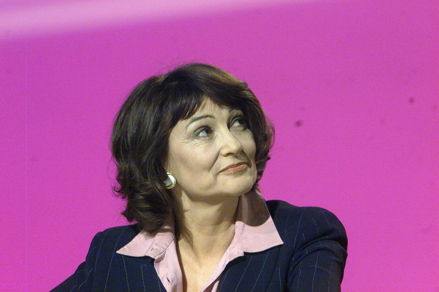 SYLVIANE AGACINSKI LORS DU MEETING DE LIONEL JOSPIN AU PALAIS DES SPORTS DE PARIS POUR LES PRESIDENTIELLE DE 2002 A L OCCASION DES JOURNEES MONDIAL DE LA FEMMELE 8/03/O1SEBASTIEN SORIANO/LE FIGARO